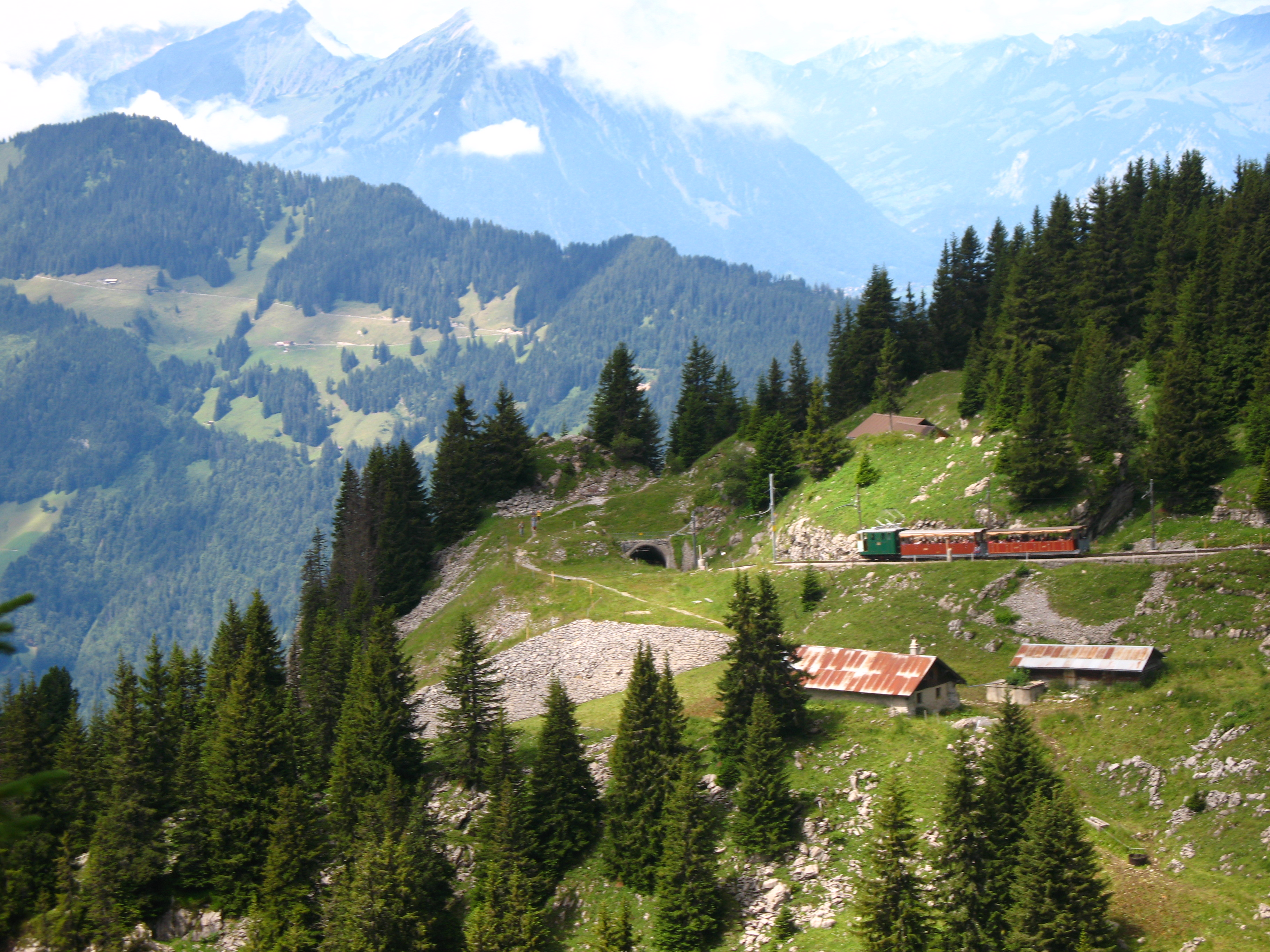 Bellenhöchst, Dreispitz, and Morgenberghorn viewed from the Schynige Platte Railway, Switzerland